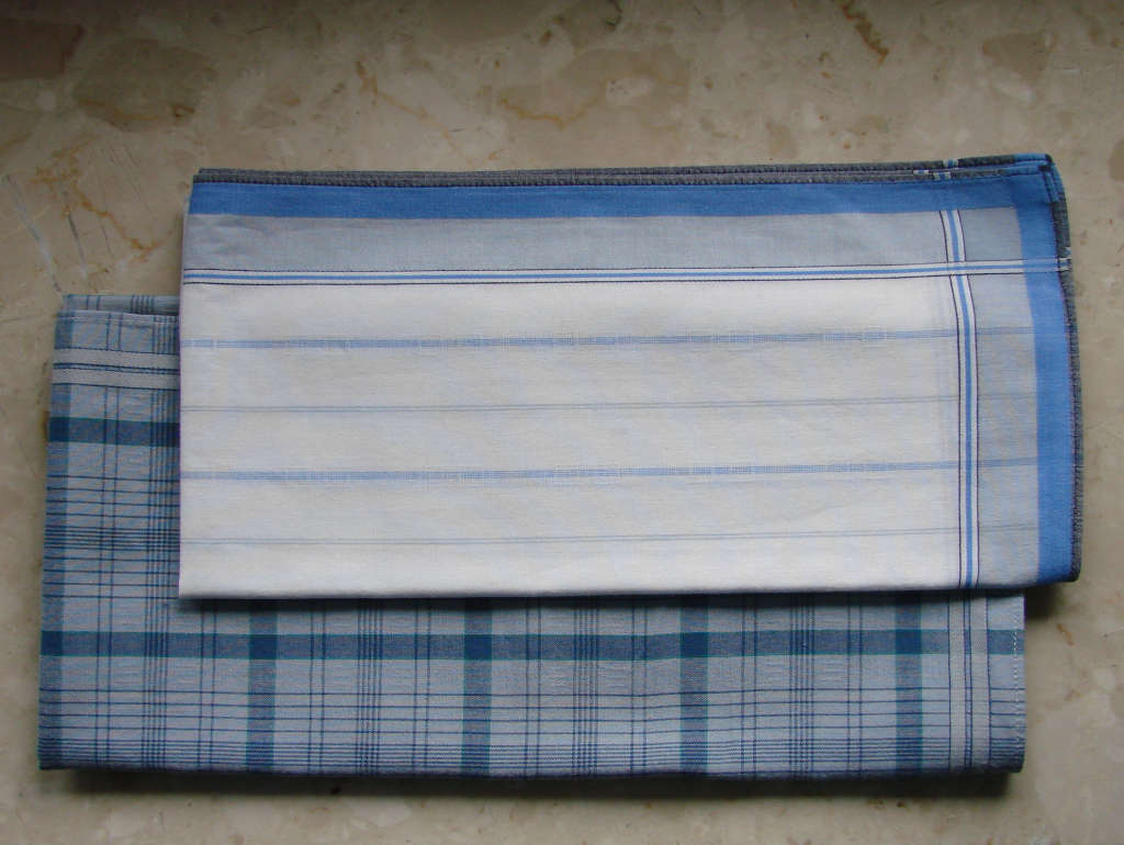 Handkerchief